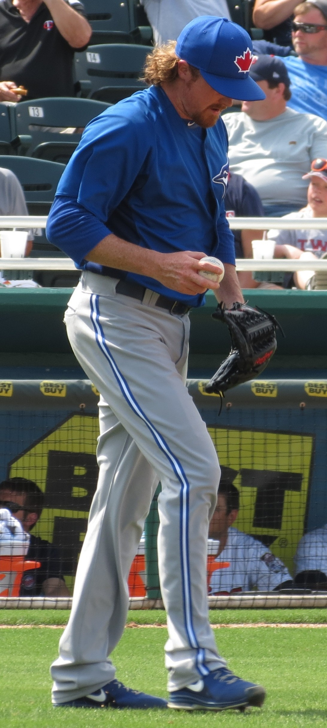 Tyson Brummett pitching for 2013 Blue Jays spring training